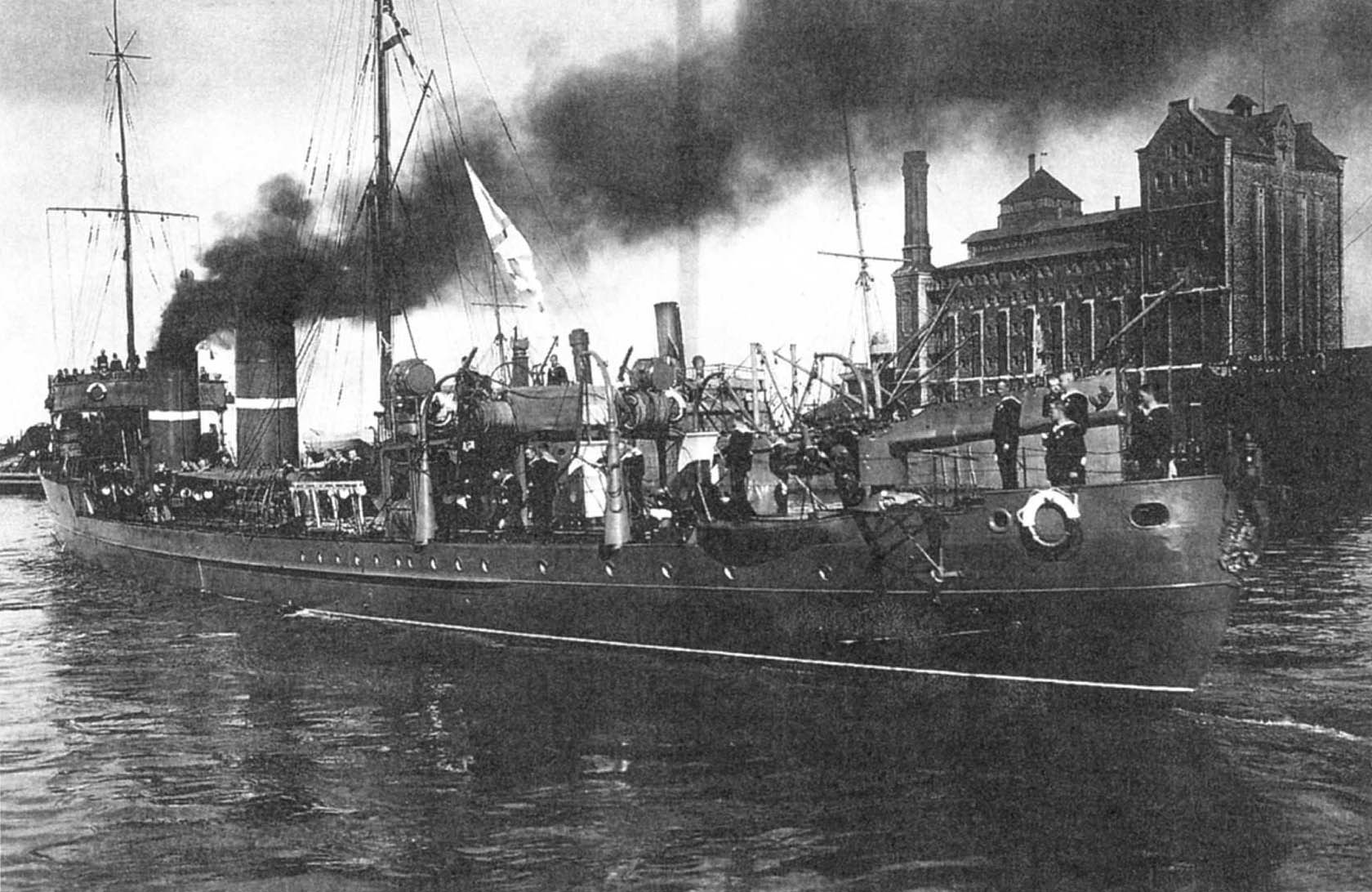 The Imperial Russian destroyer Pogranichnik.